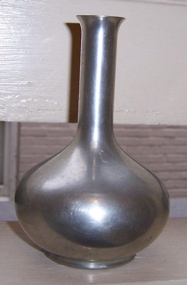 Author: Wesley H. Brewton Jr. Self made. Pewter, vase, tin, Holland, royal.